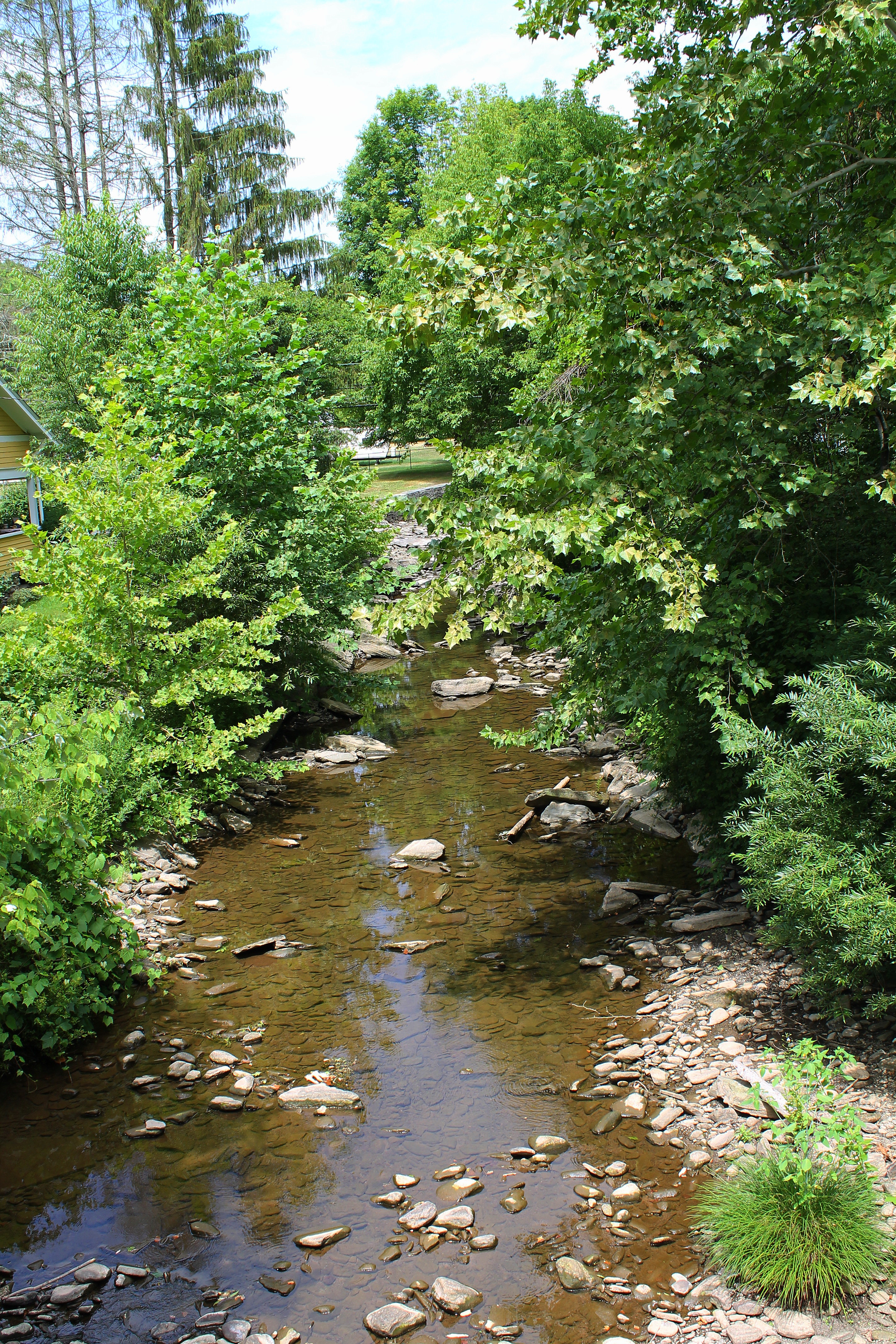 Horton Creek, a tributary of Tunkhannock Creek, looking downstream in Wyoming County, Pennsylvania.